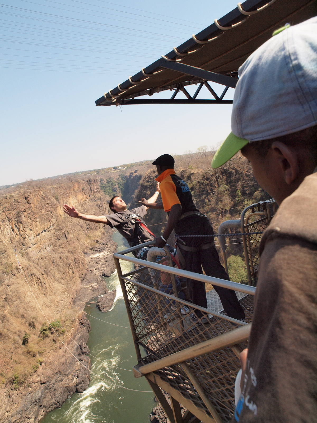 Victoria Falls Bridge jumping over Zambeze, Africa